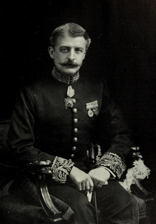 Portrait of George Wyndham